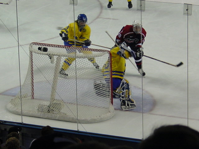 A women's ice hockey game between the United States and Sweden at the 2002 Winter Olympics, featuring Katie King (#20) of the United States and Kim Martin (#30), the Swedish goaltender. Emile Berggren (#5) defends.